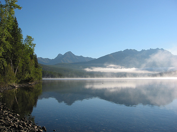 Fog rolls over the surface of Kintla Lake, caused by the different temperatures of the water and the air.